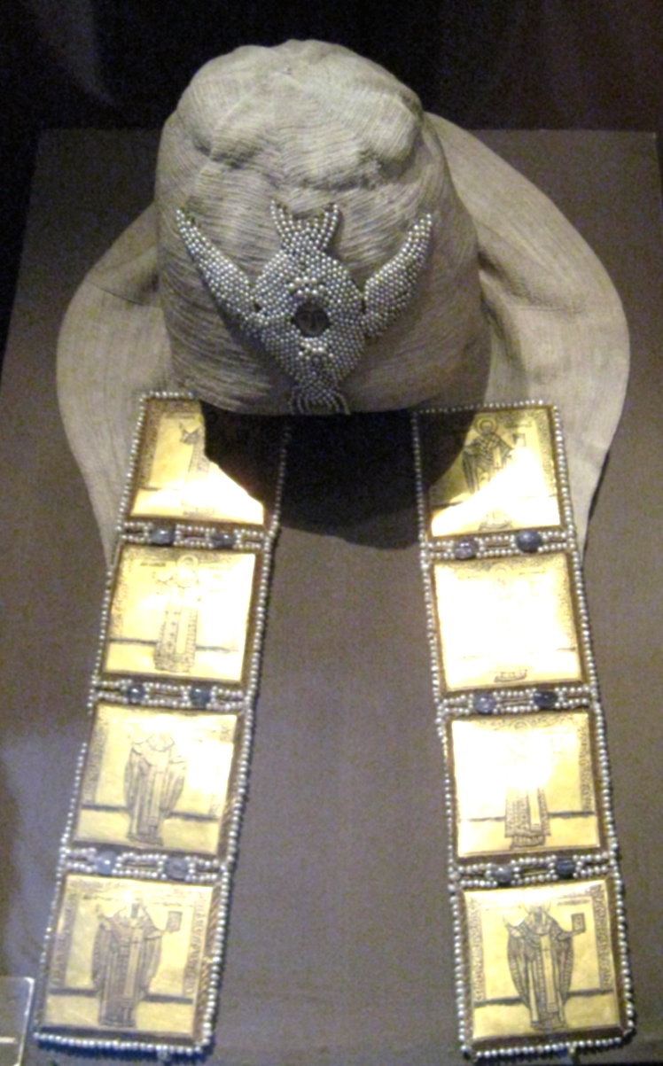 Klobuk (koukoulion--patriarchal headgear), Kremlin